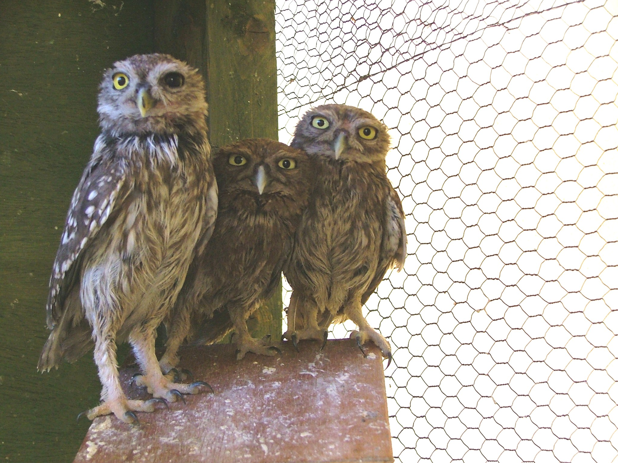 Athene noctua